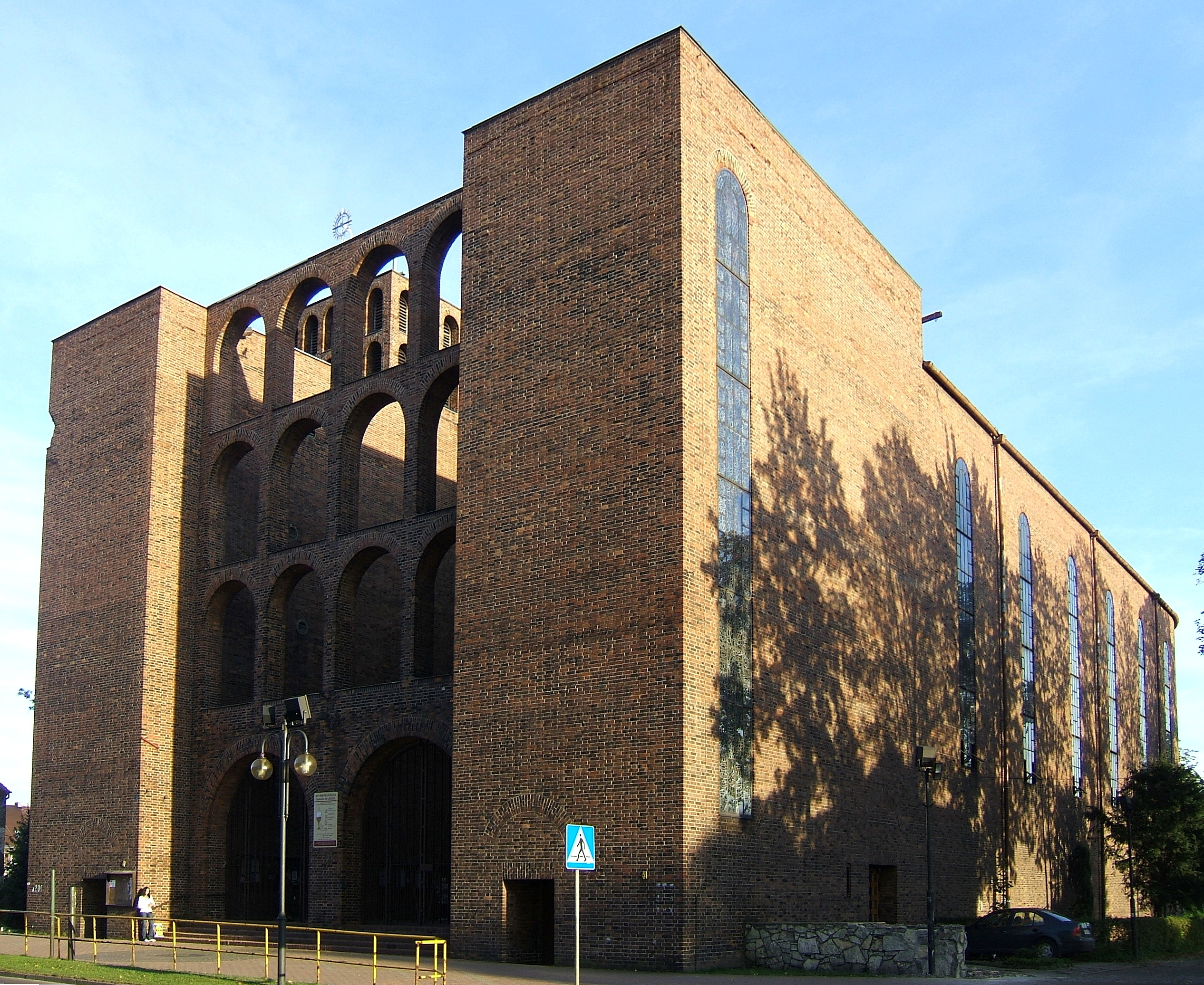 Saint Joseph's Church in Zabrze from 1929; projected by Dominikus Böhm.